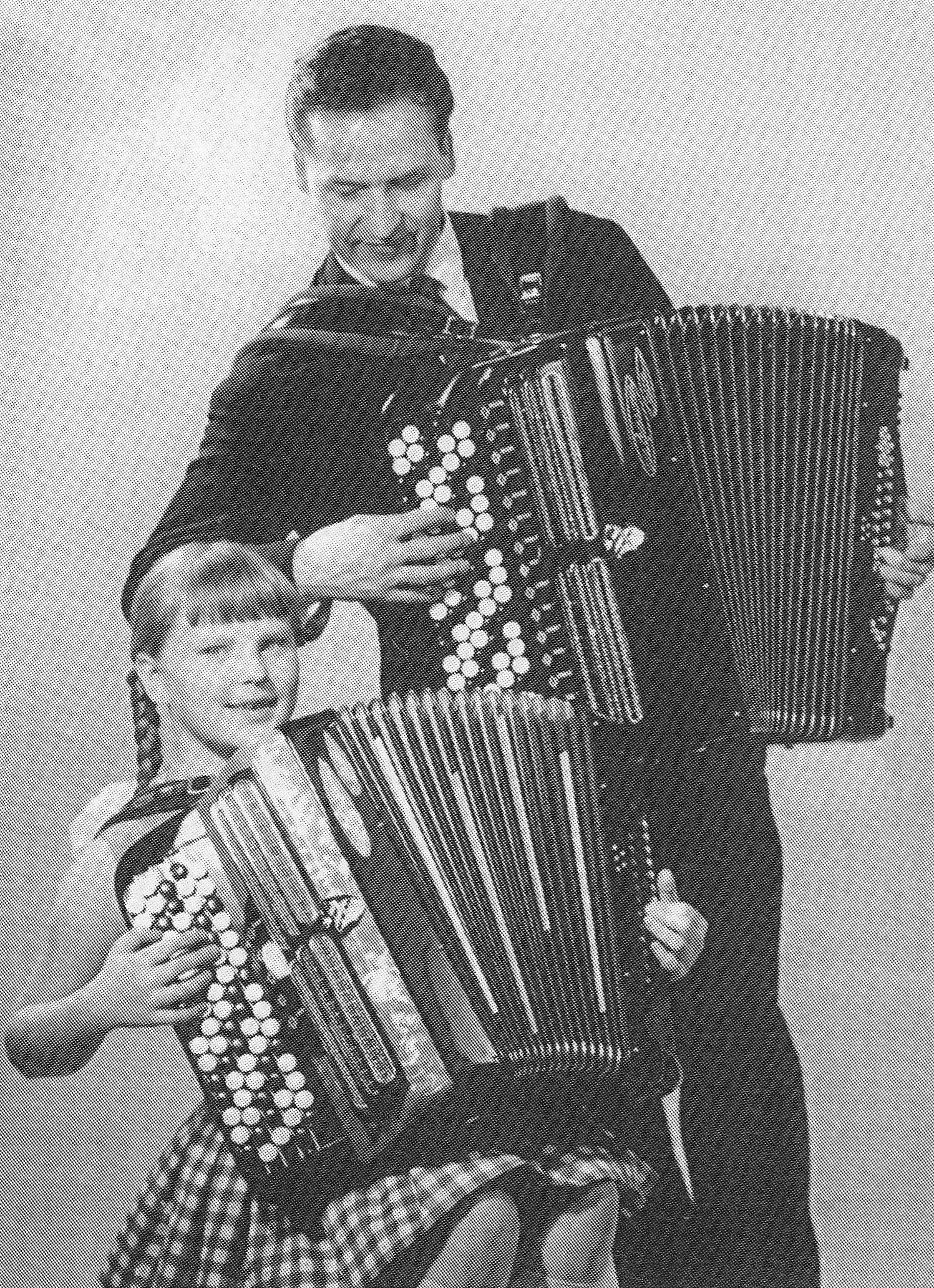 Merja Ikkelä and Lasse Pihlajamaa